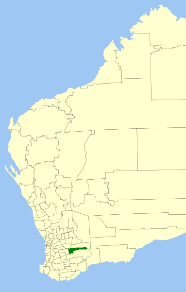 Description=Location of the Local Government Area in Western Australia